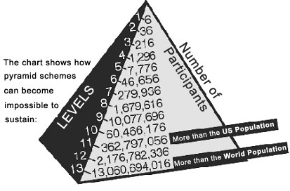 The unsustainable geometric progression of a classic pyramid scheme, from Securities and Exchange commission report on pyramid schemes.